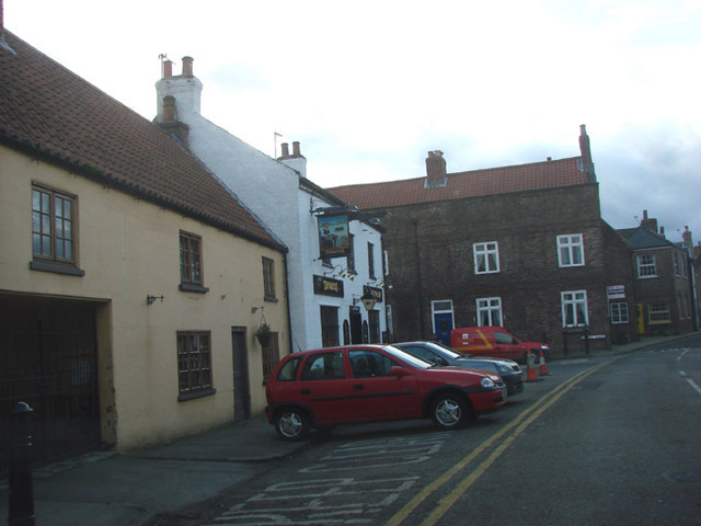 The Jolly sailor Pub, Cawood